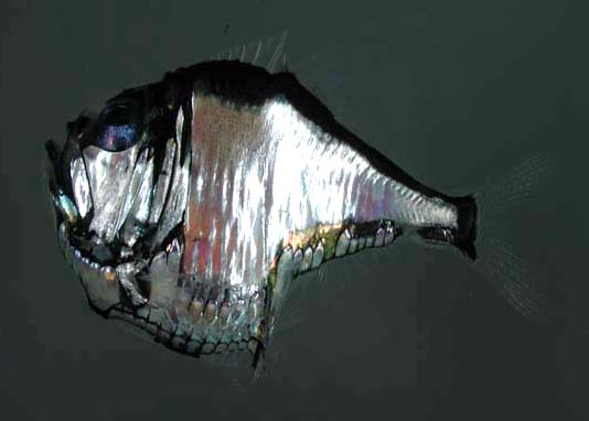 Lovely or silver hatchetfish.